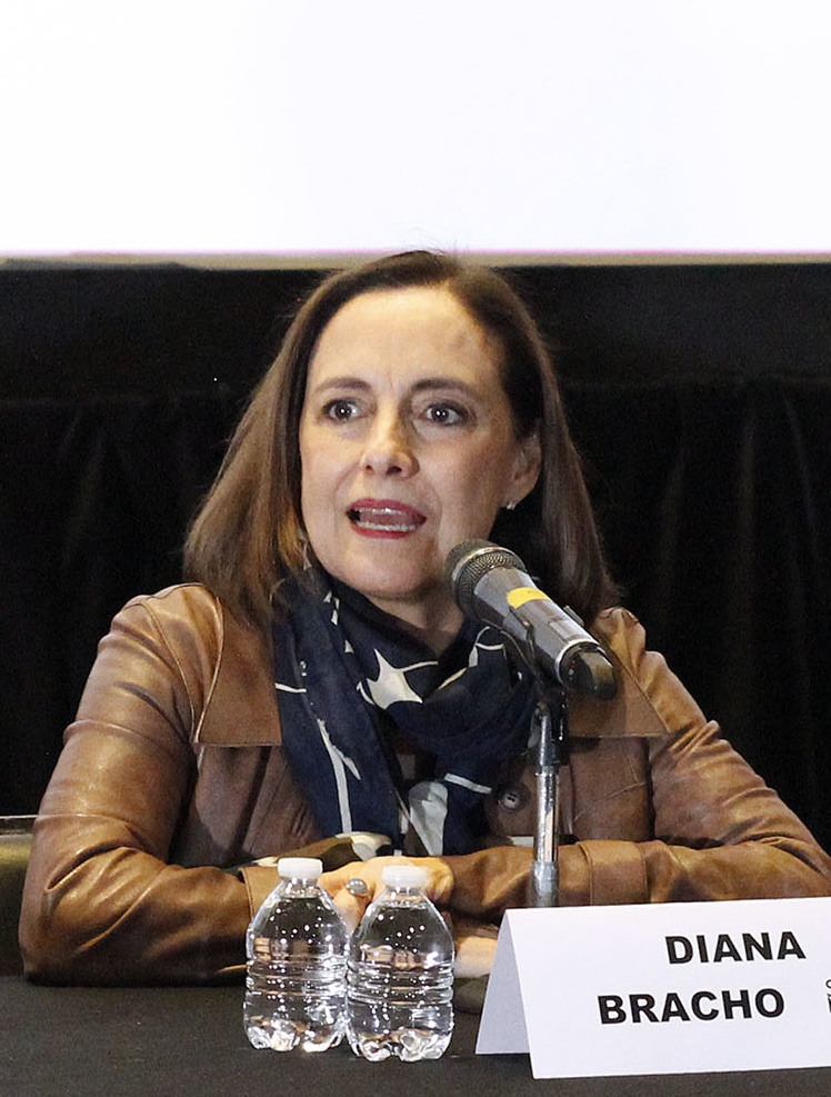 Jueves 15 de febrero de 2018.En la Cineteca Nacional se realizó la conferencia de prensa, donde hablaron del Shorts México 13 , Festival Internacional de Cortometrajes de México, con la prescencia de Rafa Lara, Claudia Ramírez, Jorge Magaña, Diana Bracho y Axel Arenas.Fotografía: Joanna Enríquez/ Secretaría de Cultura CDMX.